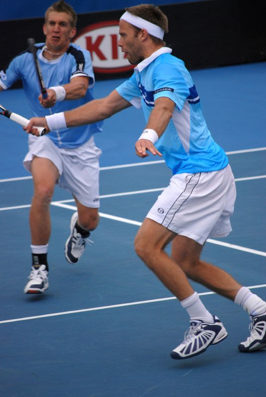 Jarkko Nieminen and Robert Lindstedt attack the ball.